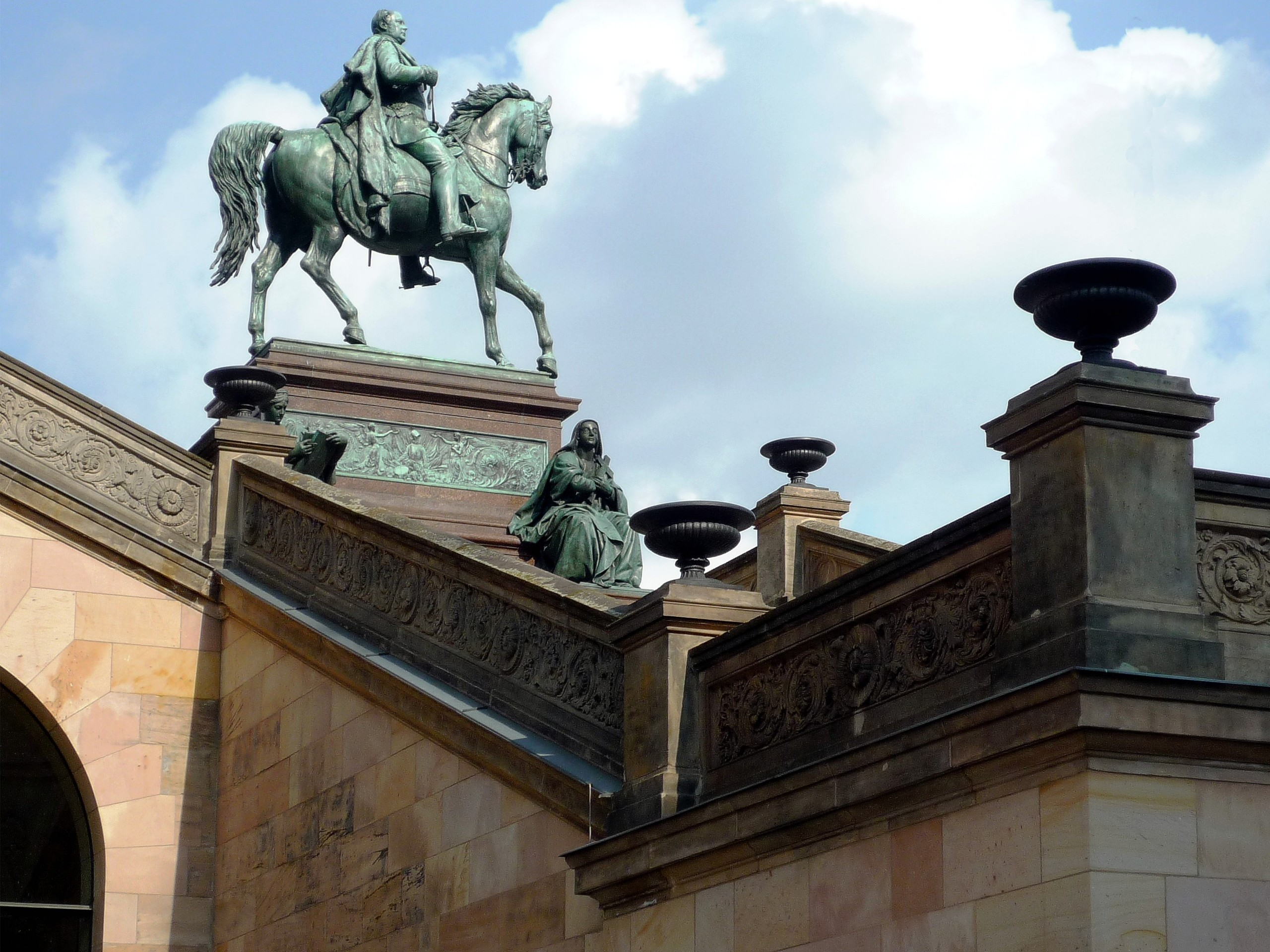 Berlin, Museumsinsel. Equestrian statue of Friedrich Wilhelm IV., king of Prussia, in front of the Alte Nationalgalerie (Old National-Gallery).Sculptor: Alexander Calandrelli, 1886.